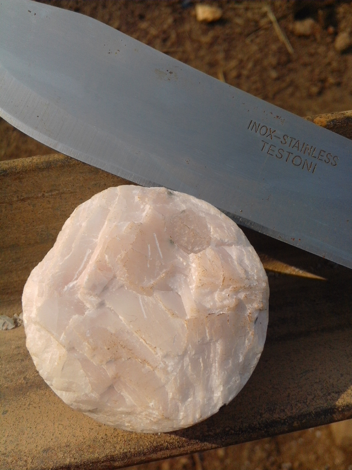 quartz crystals on section of limestone core